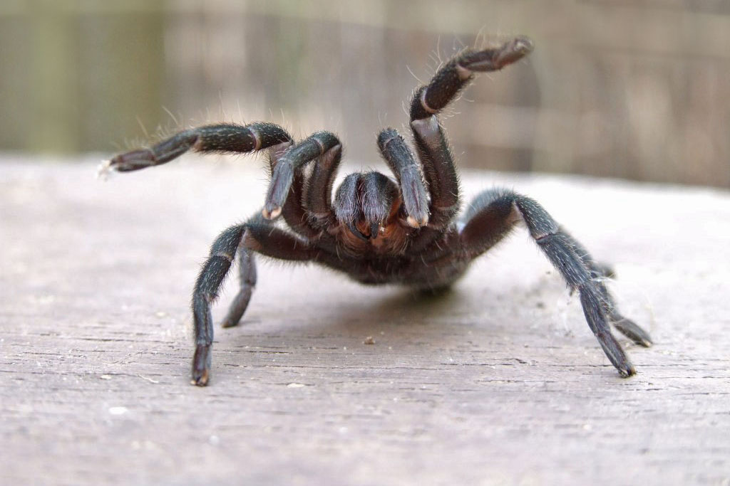 Chaetopelma olivaceum